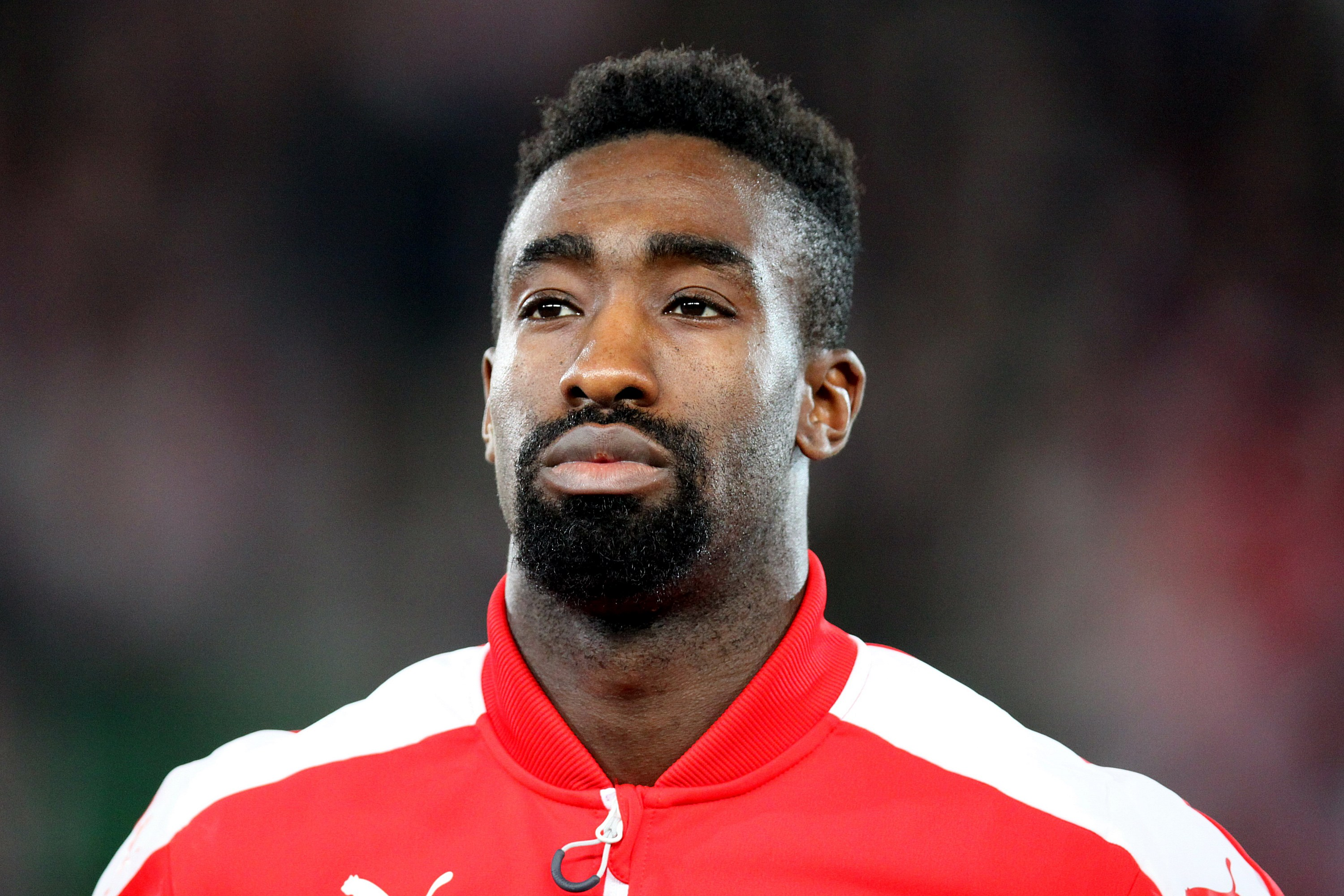 Friendly match – Austria (red shirts) vs. Switzerland (white shirts) 1-2 (1-2) – 2015-11-17 in Vienna, Ernst-Happel-Stadion – The photo shows Johan Djourou (Switzerland).